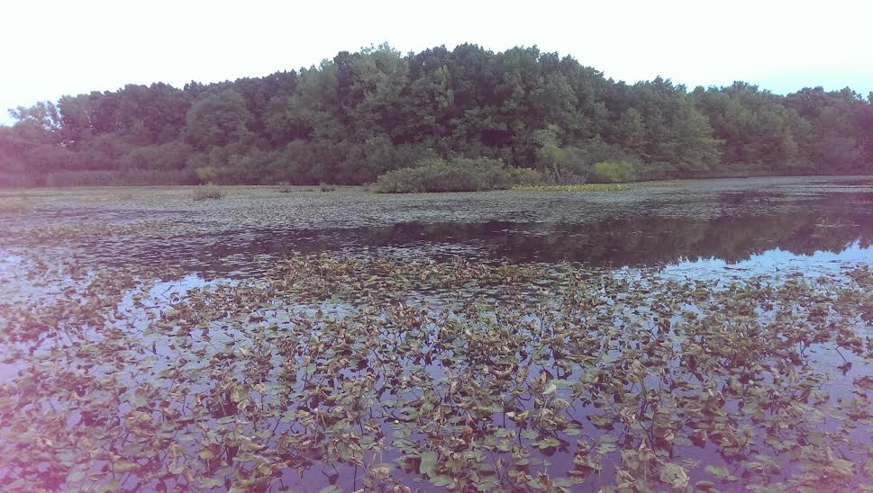 Clay Pit Ponds. One of the many parks that make up the Greenbelt in Staten Island, New York.